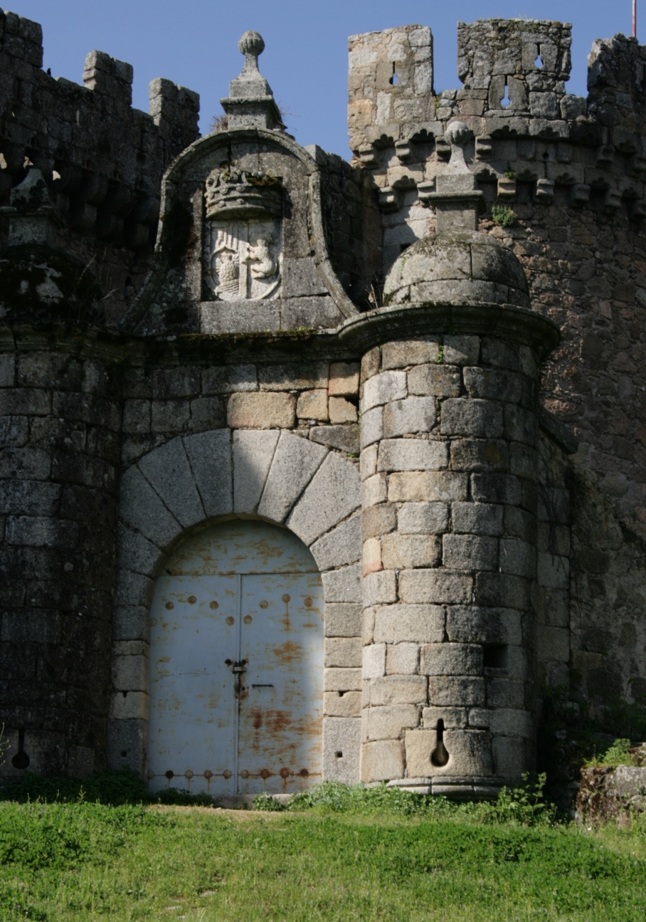 The Middle Age fortress of Mombeltrán in the province of Ávila, under the autonomous region Castile and León, Spain.